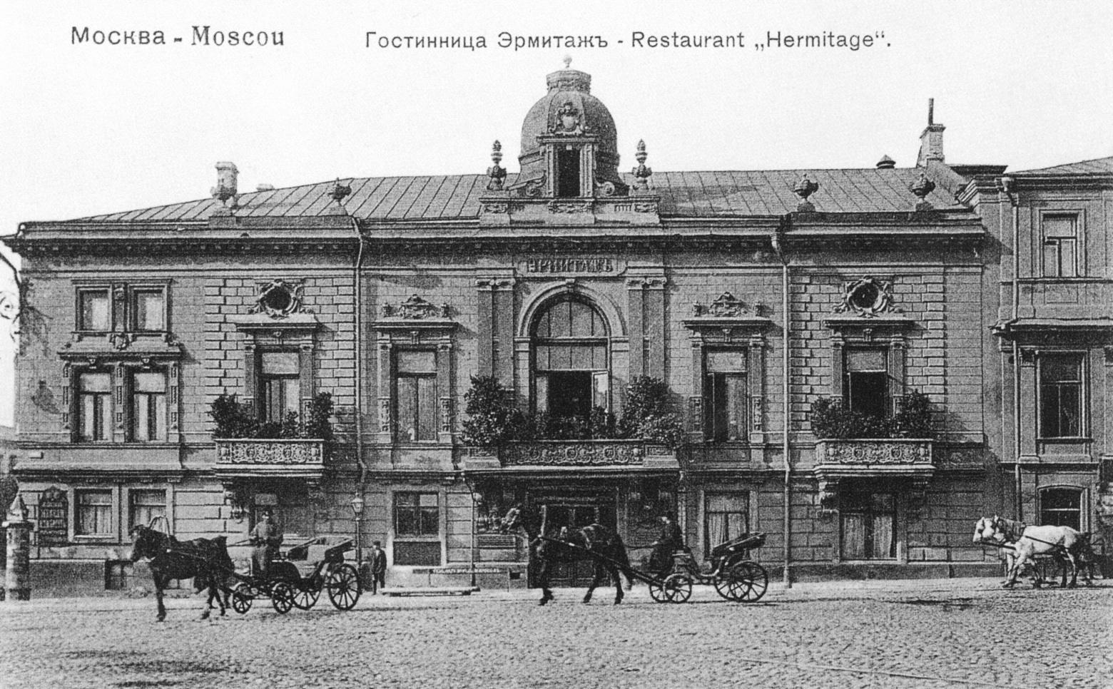 Hotel and restaurant "Hermitage" founded by Lucien Olivier 1864 in Moscow, Neglinnaya street 29/14. It was closed in 1917.